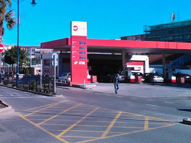 Petrol station in Gibraltar where IRA members Daniel McCann and Mairéad Farrell were shot by the SAS as part of Operation Flavius in 1988.